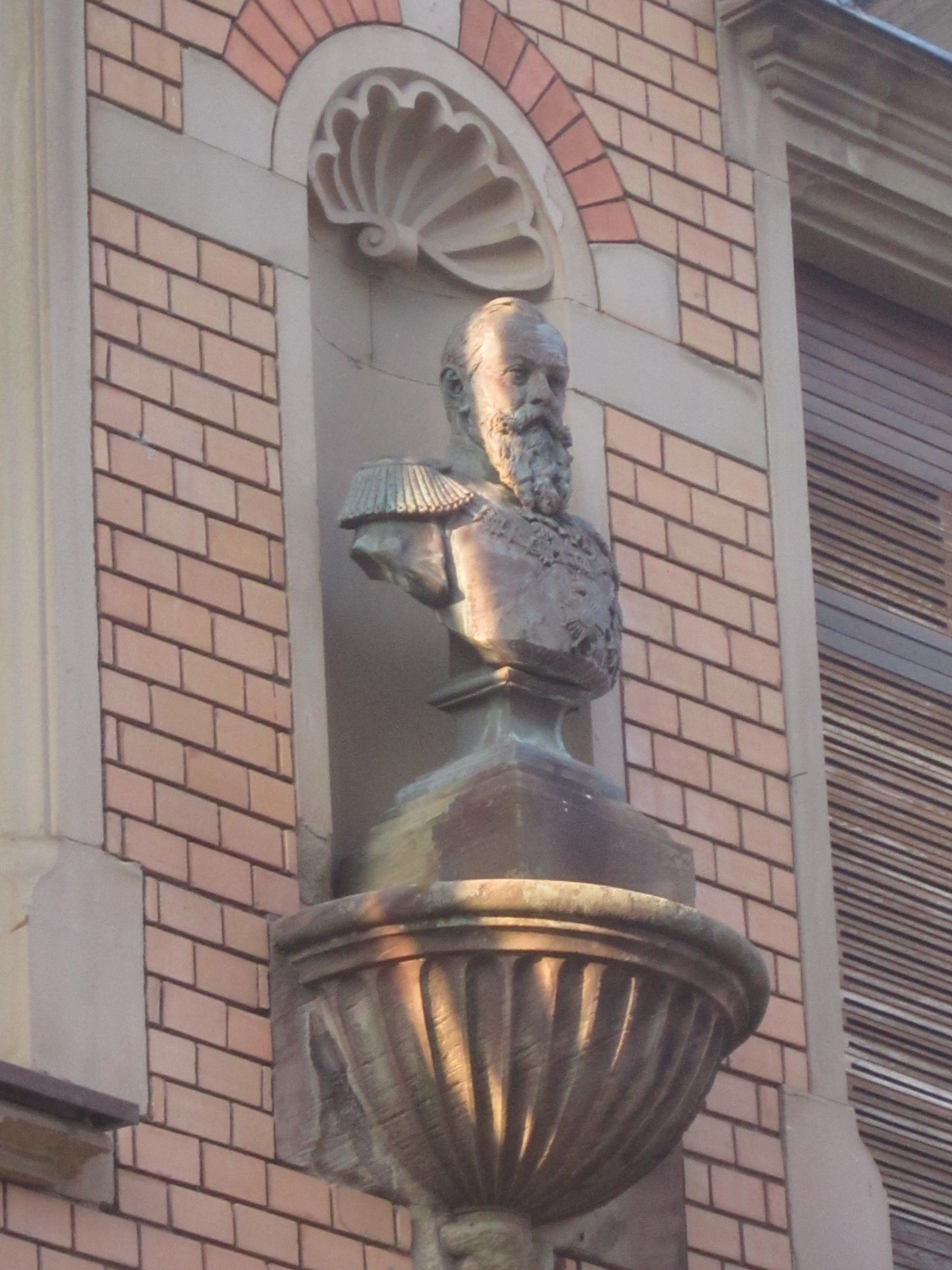 Bust of Bavarian Prince Regent Luitpold at a building in the German spa town of Bad Kissingen in Lower Franconia (Bavaria) (Address: Marktplatz 09).